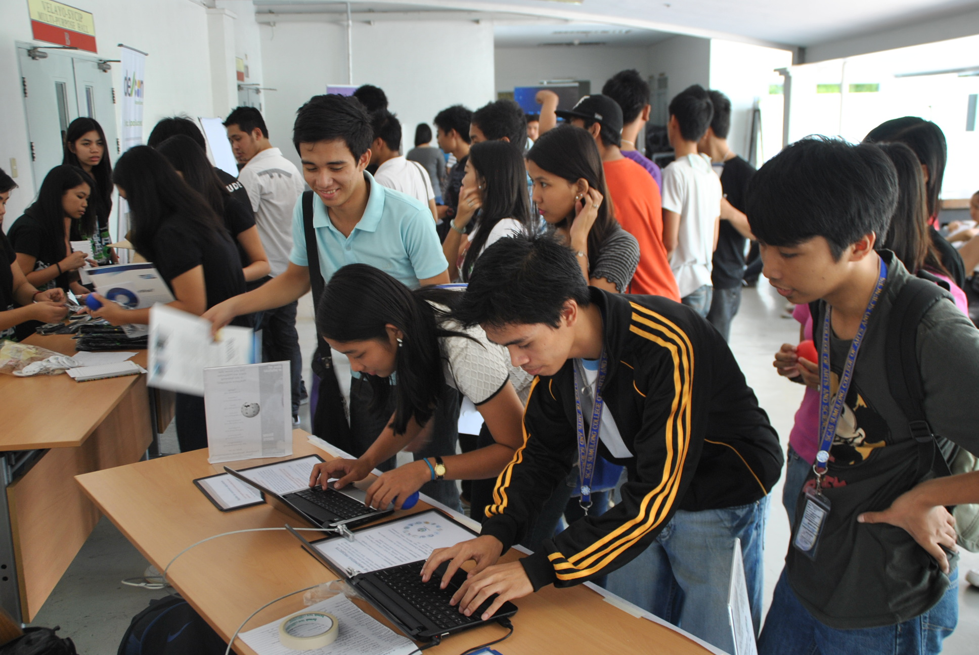 Students lined up to register at the Wikimedia Philippines booth at the Software Freedom Day 2011 in the University of Santo Tomas, Manila. September 17, 2011.